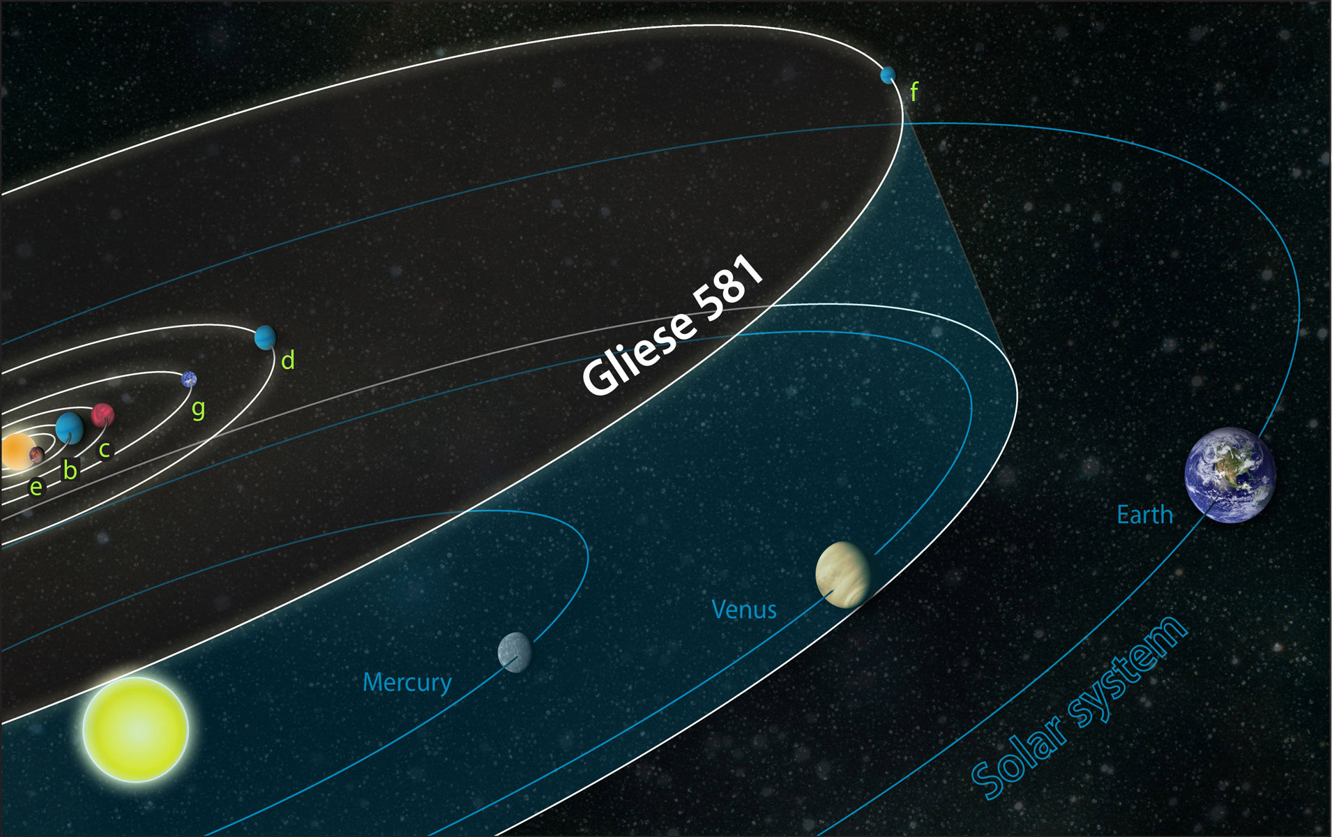 The orbits of planets in the Gliese 581 system are compared to those of our own solar system. The Gliese 581 star has about 30 percent the mass of our Sun, and the outermost planet is closer to its star than the Earth is to the Sun. The 4th planet, G, is a planet that could sustain life. Note: Planet sizes not to scale.